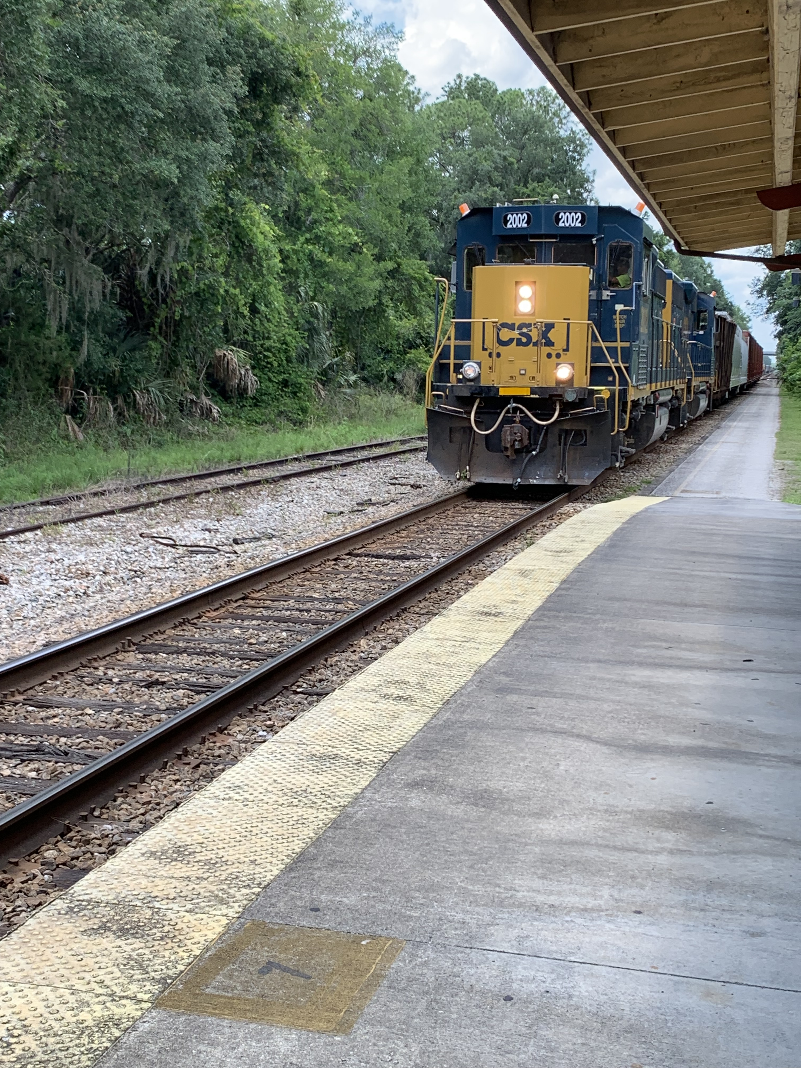 Image originally published on DeviantArt on May 16, 2019. The DeviantArt account is mine, and I am the proprietor if this work. Original DeviantArt link